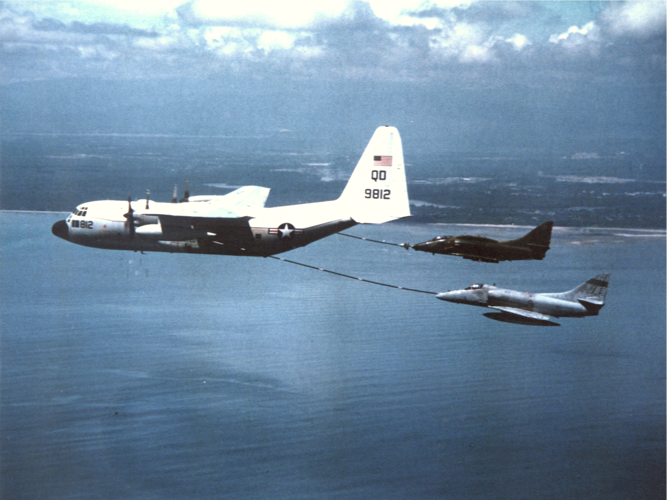 A Marine Corps Lockheed KC-130F Hercules (BuNo 149812) of Marine Aerial Refueler Transport Squadron 152 (VMGR-152) refueling a U.S. Navy Douglas A-4E Skyhawk of Fleet Composite Squadron 5 (VC-5) and an A-4PTM of the Royal Malaysian Air Force, in 1987.